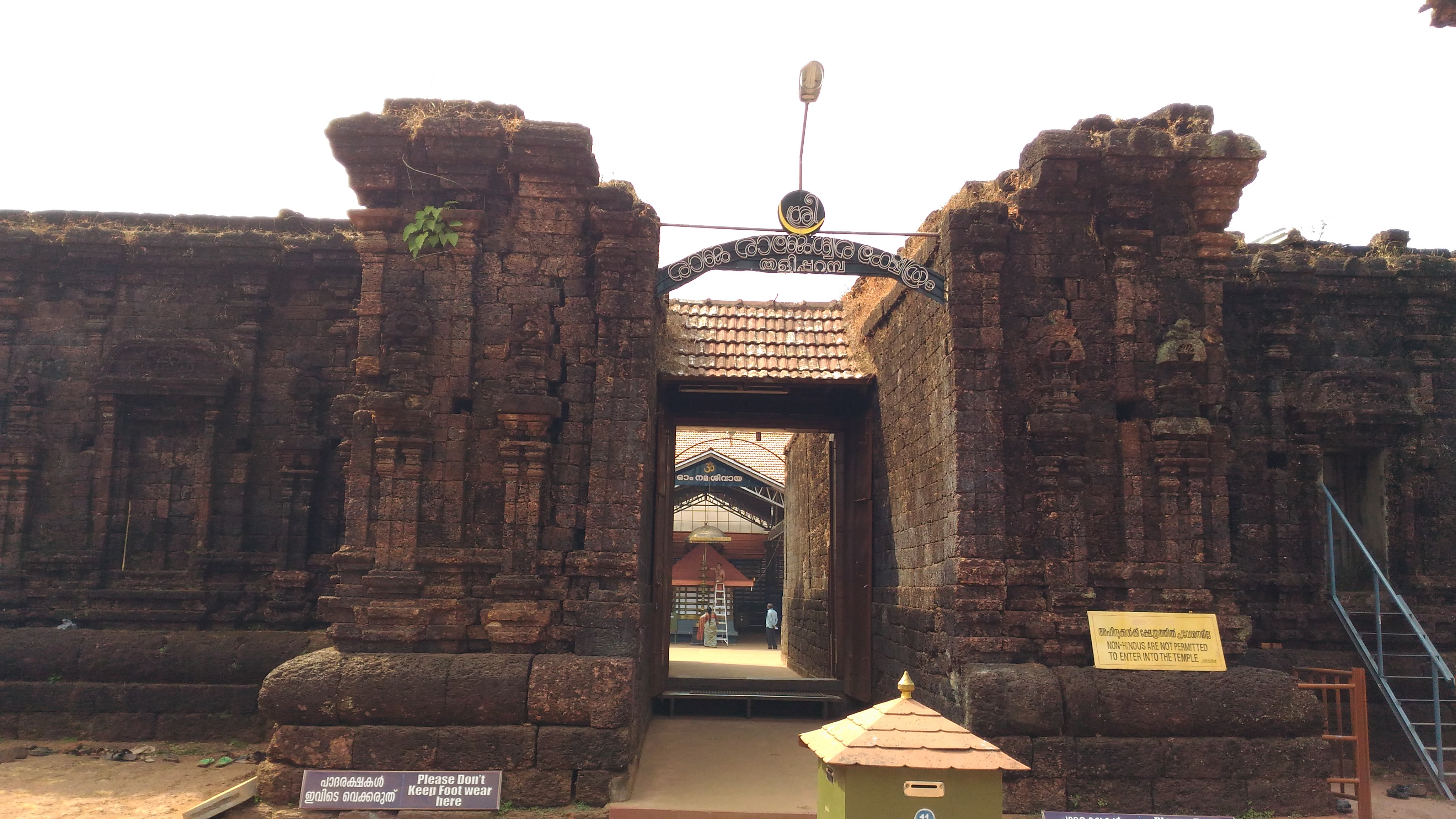 Red stone construction- Thaliparambu Rajarajeswara temple